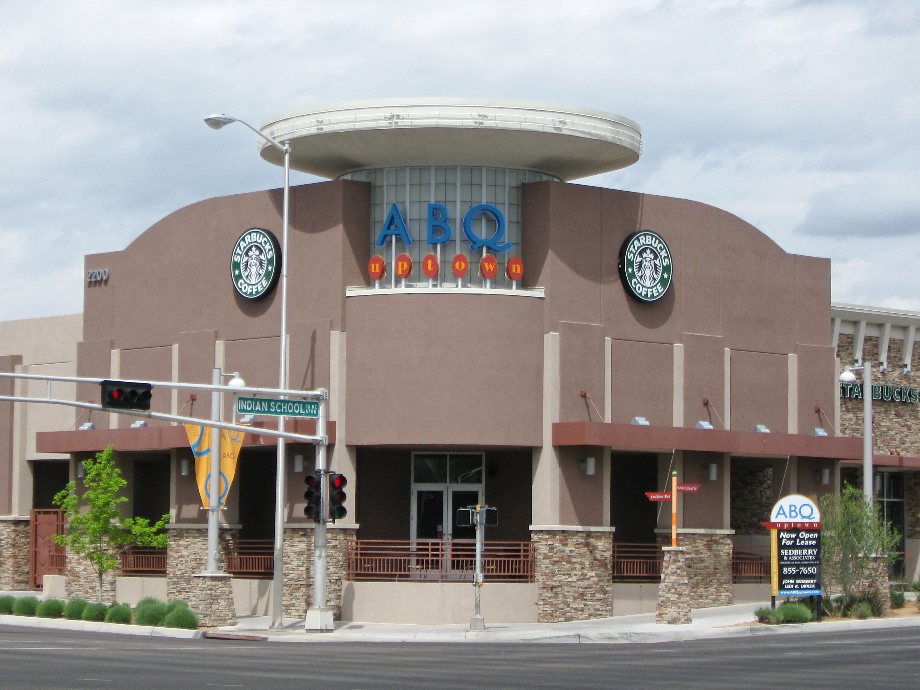 Corner display of the ABQ Uptown shopping mall, located at the corner of Indian School and Louisiana in Albuquerque, New Mexico